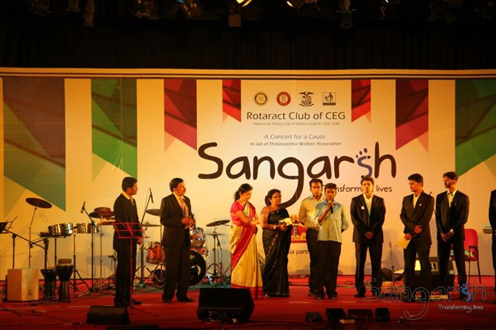 Sangarsh 2013 - Handing the citation